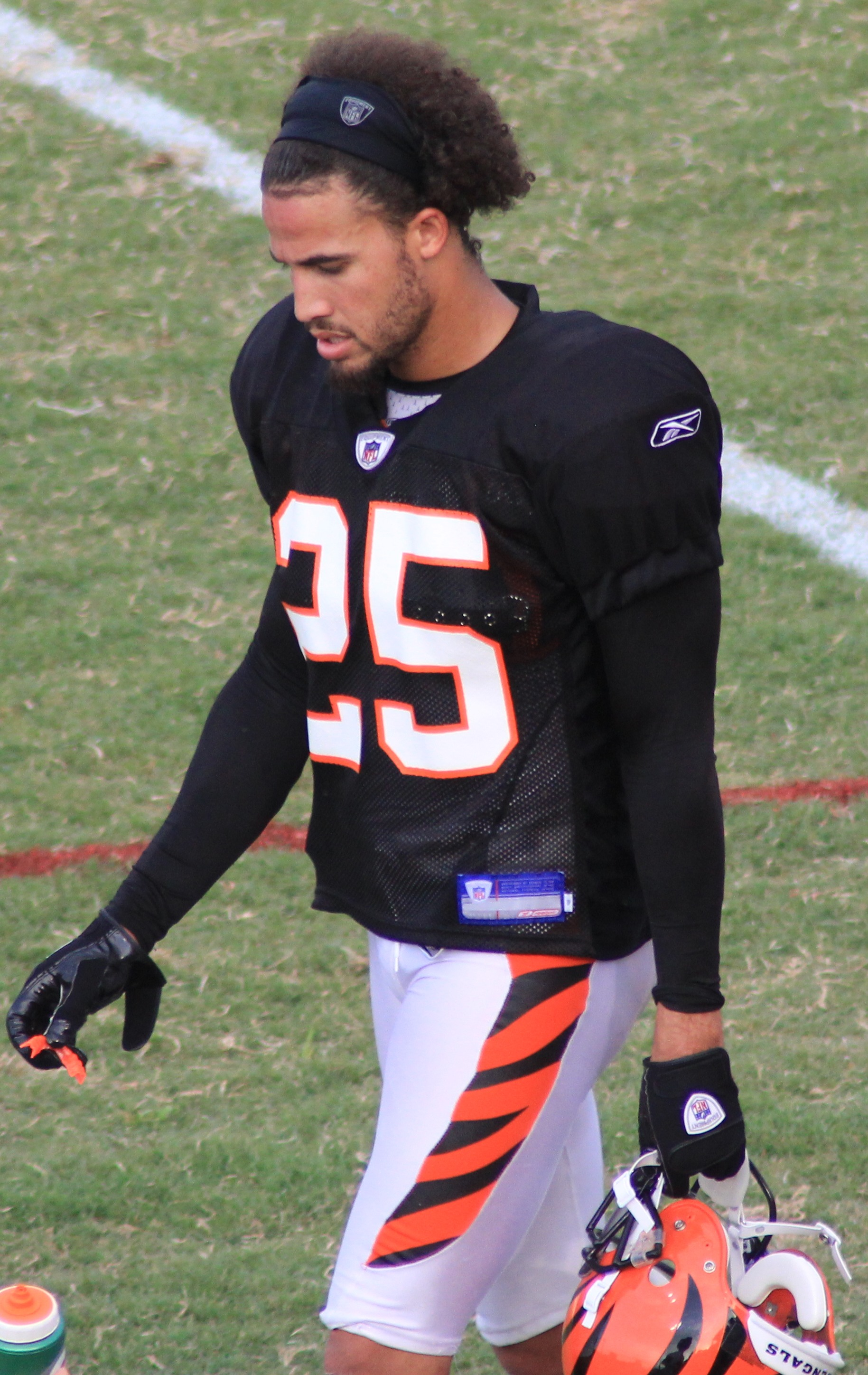 Morgan Trent at Cincinnati Bengals training camp on August 6, 2011.